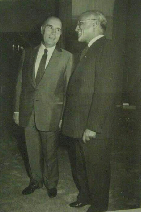 Dey Ould Sidi baba and François Mitterrand, the President of the French Republic